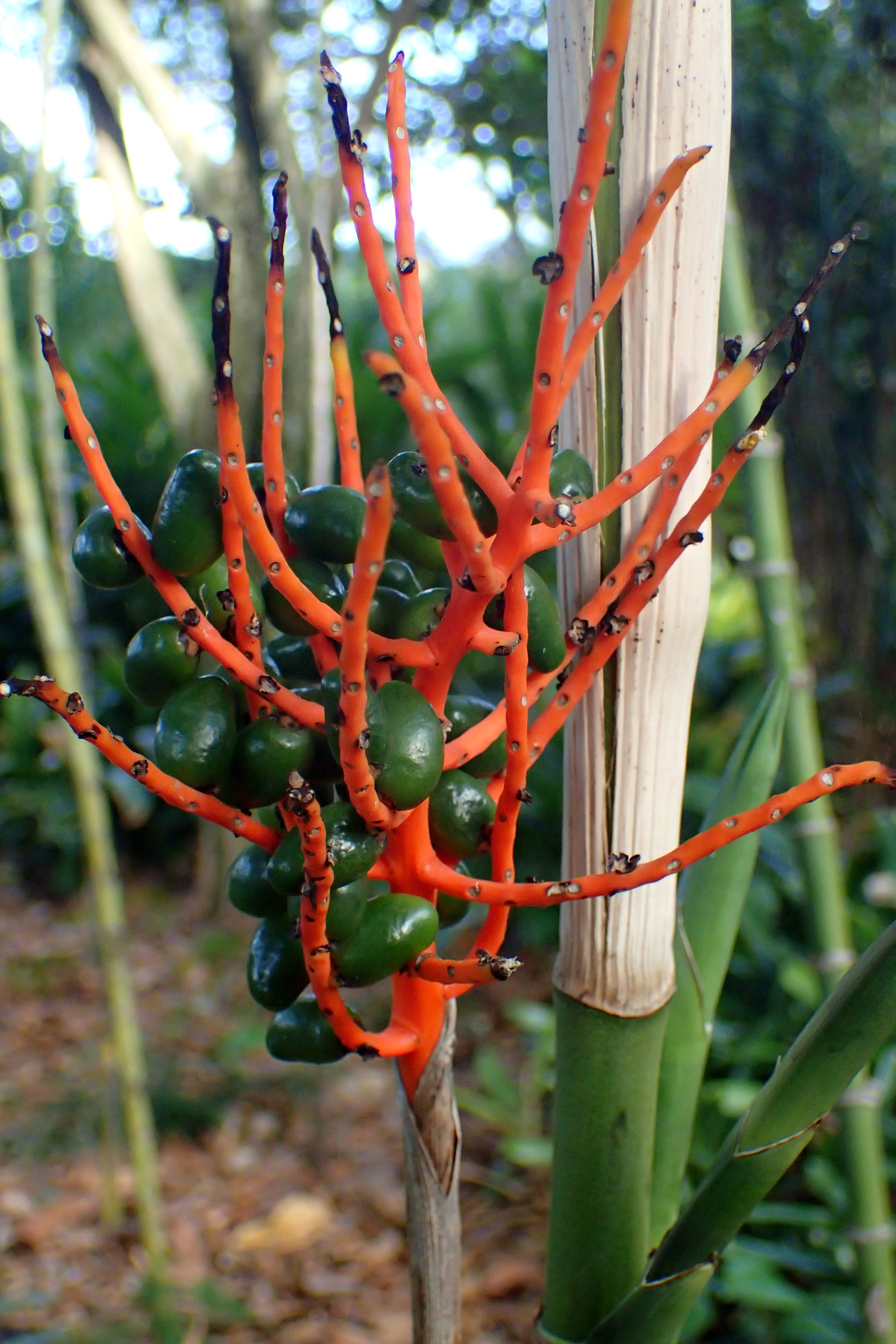 Chamaedorea oblongata in Jardín de Aclimatación de la Orotava